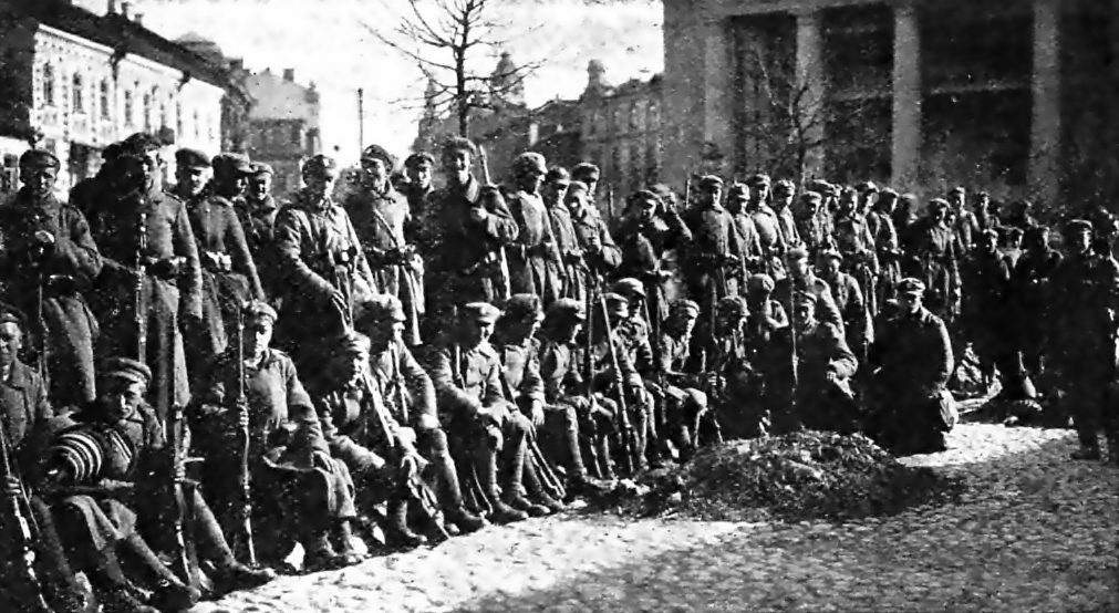 Polish soldiers in Vilnius 1920